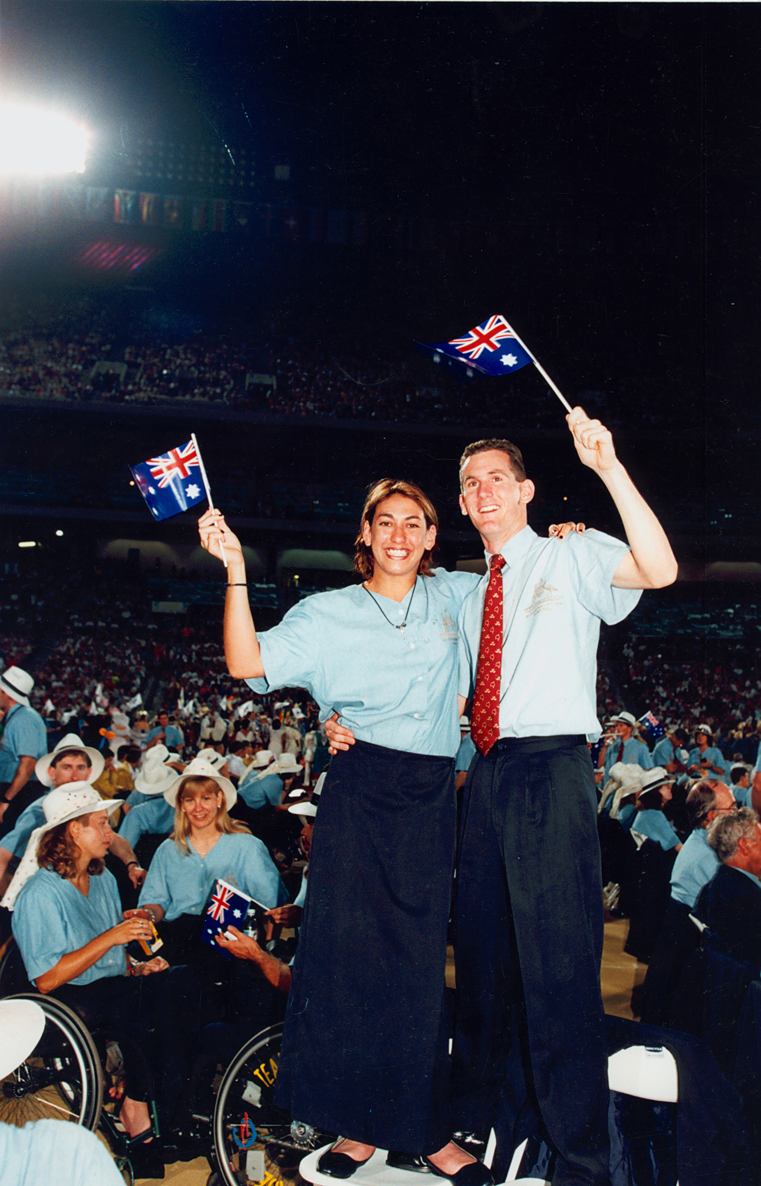 Australian athlete Priya Cooper with a teammate (possibly Paul Gockel) at opening ceremony of the 1996 Atlanta Paralympic Games